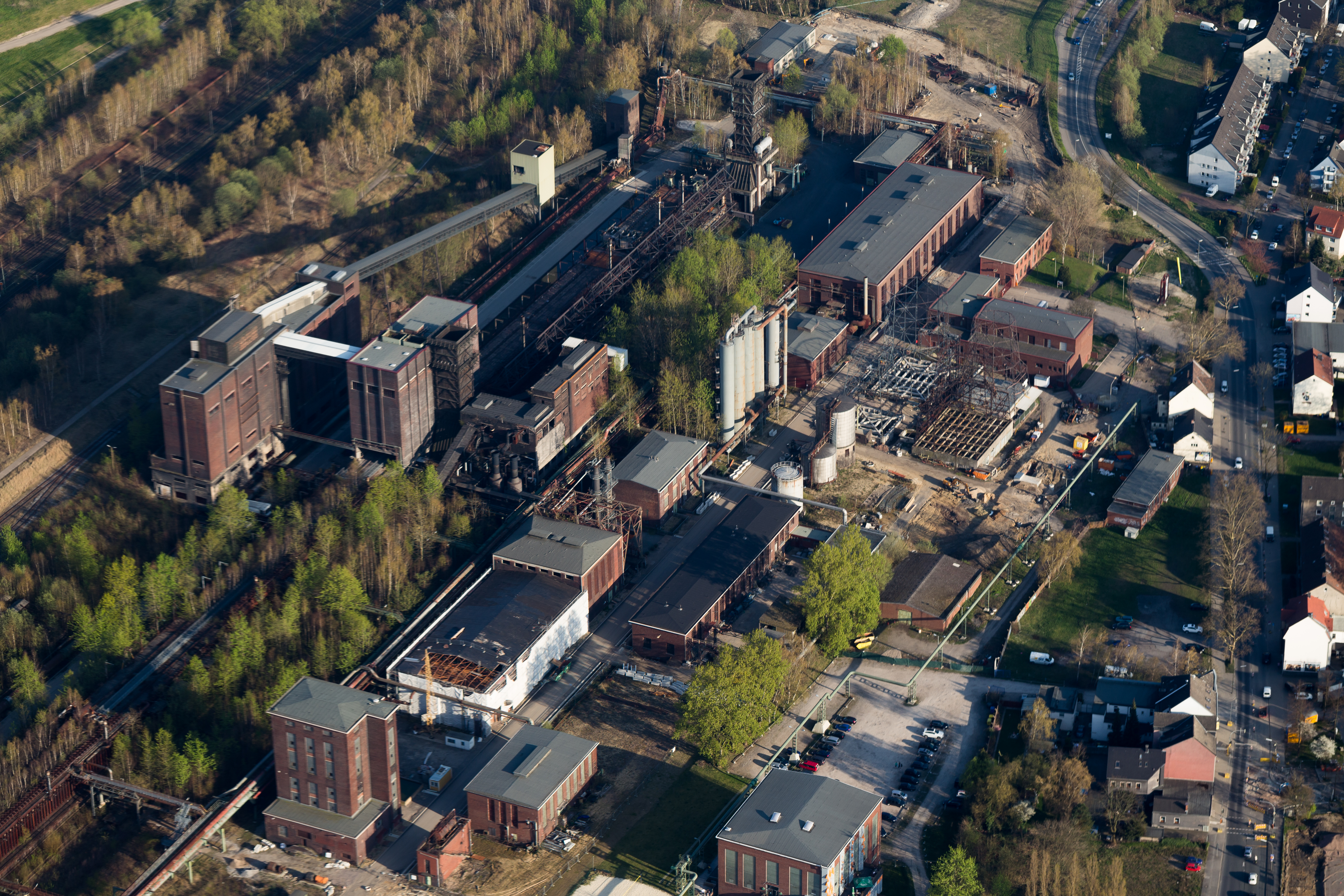 Aerial of former coking plant Hansa locate in Huckarde district of Hannover, Germany.